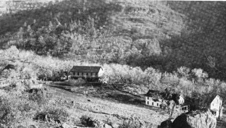 A view of the Richardson Springs Hotel spa at Richardson Springs in 1915. A resort settlement on Mud Creek, 8.5 miles (13.7 km) north-northeast of Chico, in Butte County, California.